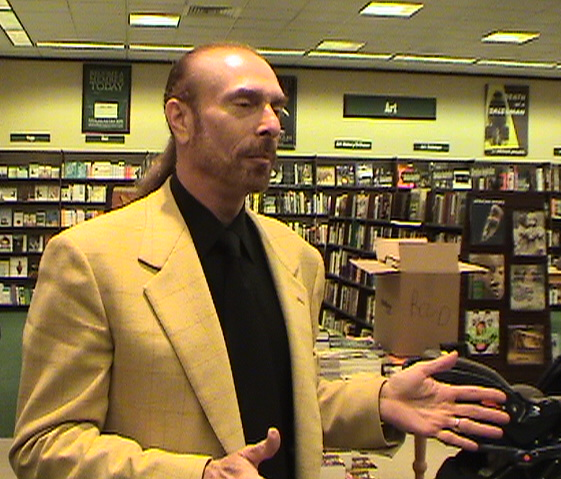 Mystar1959 is webmaster of .